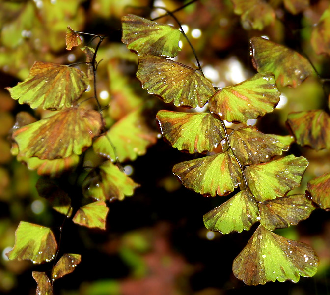 Adiantum lunulatum- 'Rajhans' 'राजहंस' / Ratkombada' 'रातकोंबडा' in Marathi- in Goa, India.